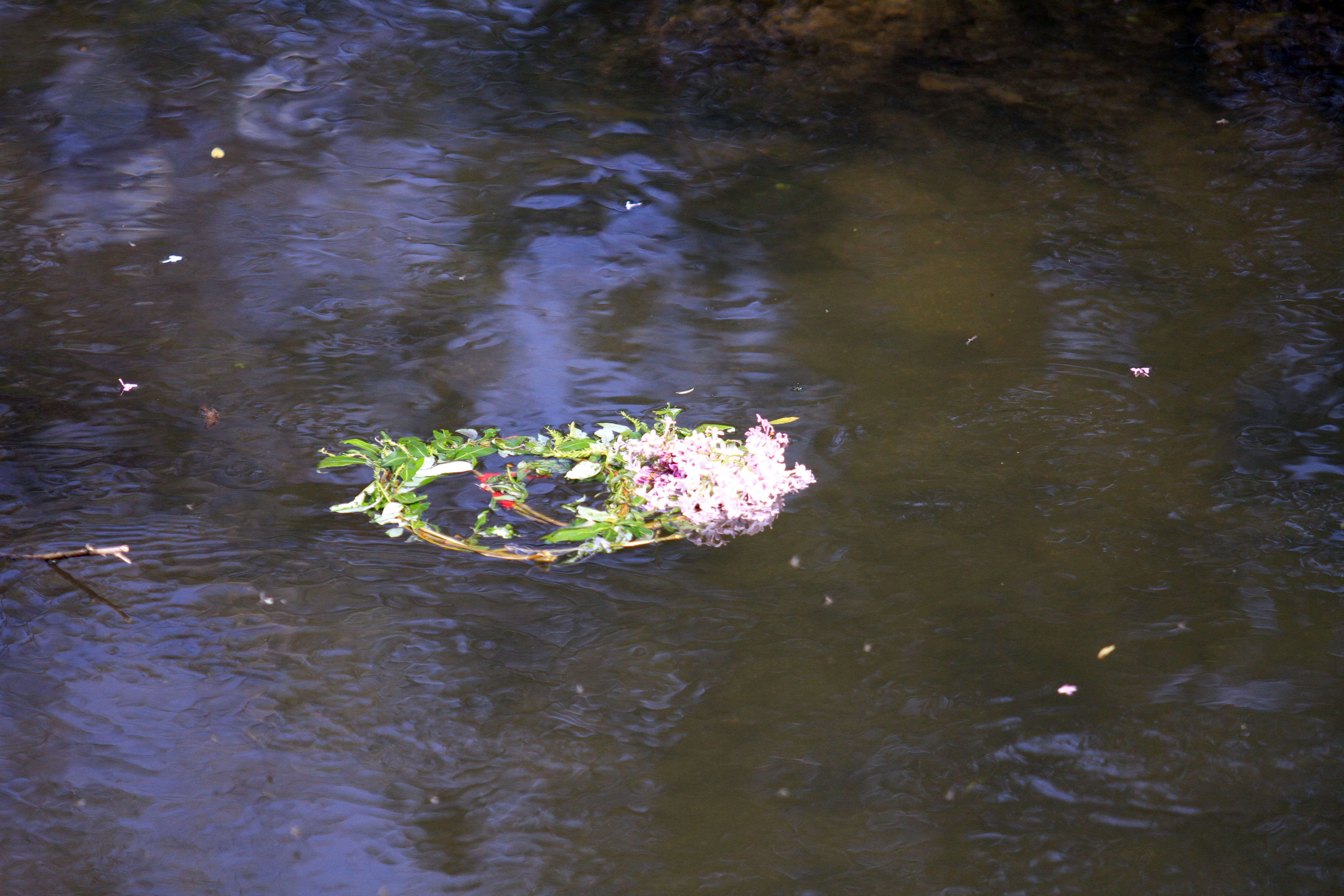 Lazarka's wreath thrown into the river. Easter holidays in Bulgaria. This photo has been taken in the country: Bulgaria